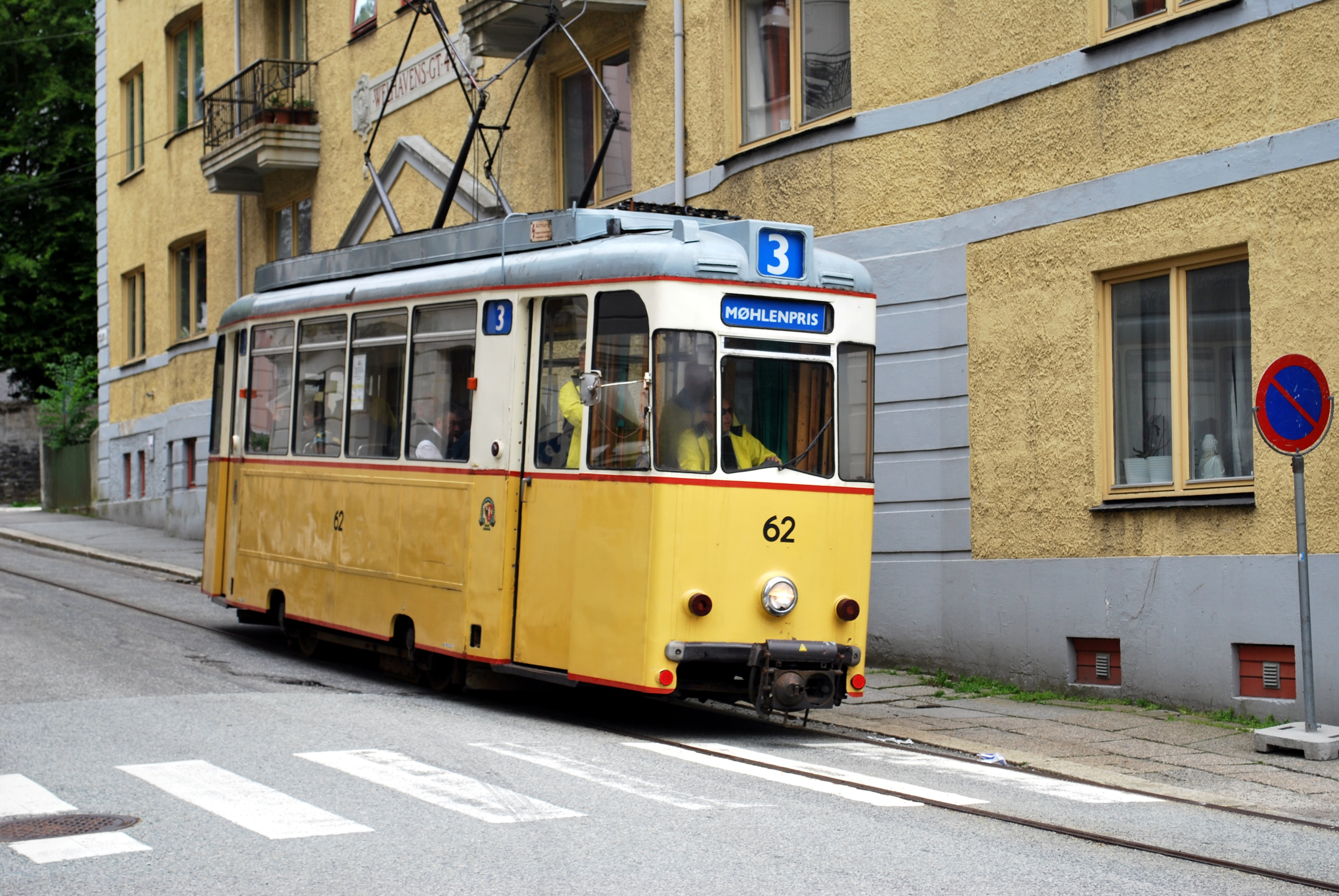 Museum streetcar, Museumstrikken, Bergen, Norway.